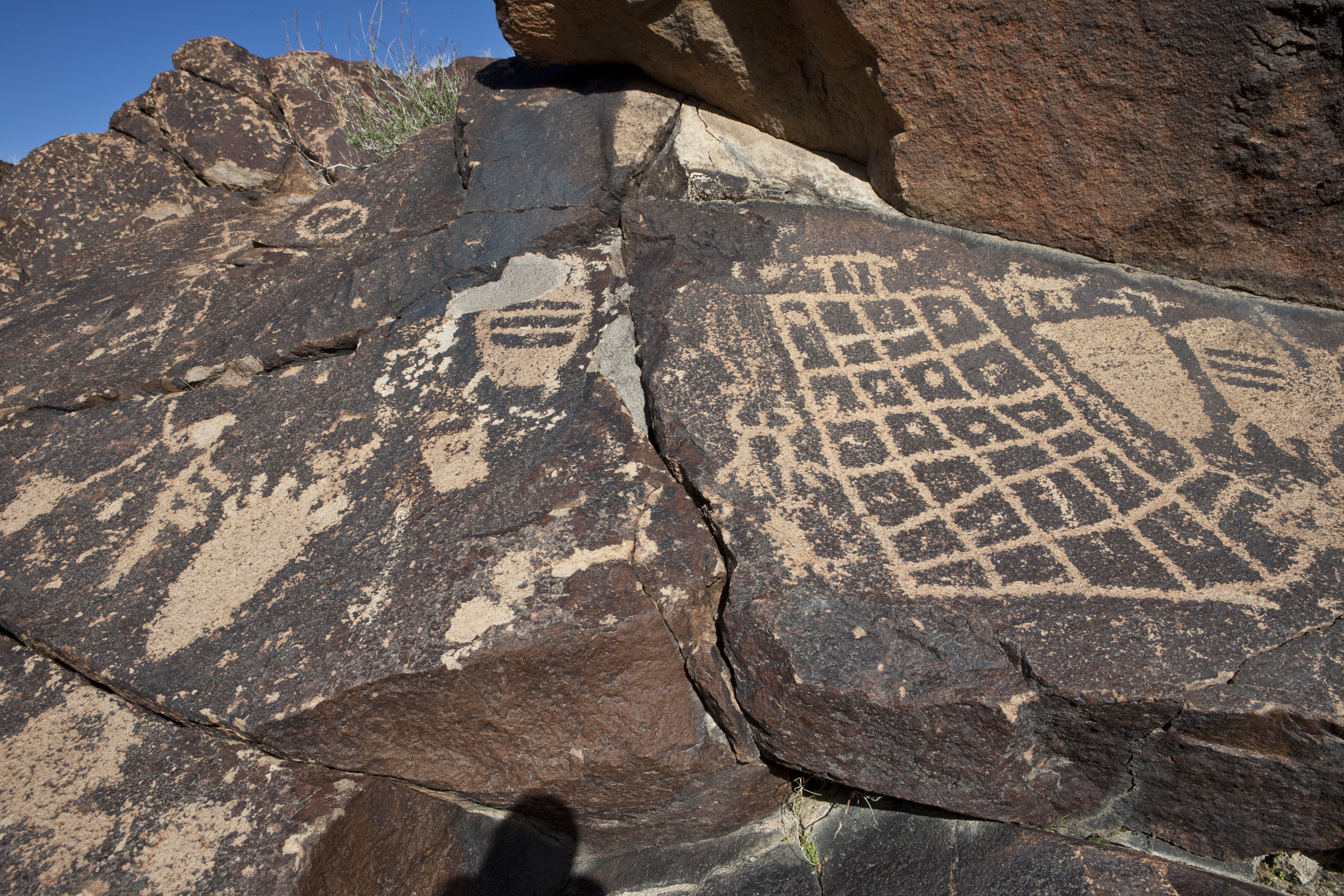 The #mypubliclandsroadtrip ends the day with the diverse wilderness managed by BLM Nevada through the National Conservation Lands. These areas are largely undeveloped, natural, and unconstrained by human activity. They provide outstanding opportunities for solitude or primitive and unconfined recreation. These wilderness lands consist of rugged mountain ranges, broad valleys, and desert plains that house natural and cultural resources. The BLM Nevada, in partnership with local communities, manages these lands for current and future generations. Sloan Canyon NCA in North McCullough Wilderness, BLM Nevada, by Bob Wick, BLM